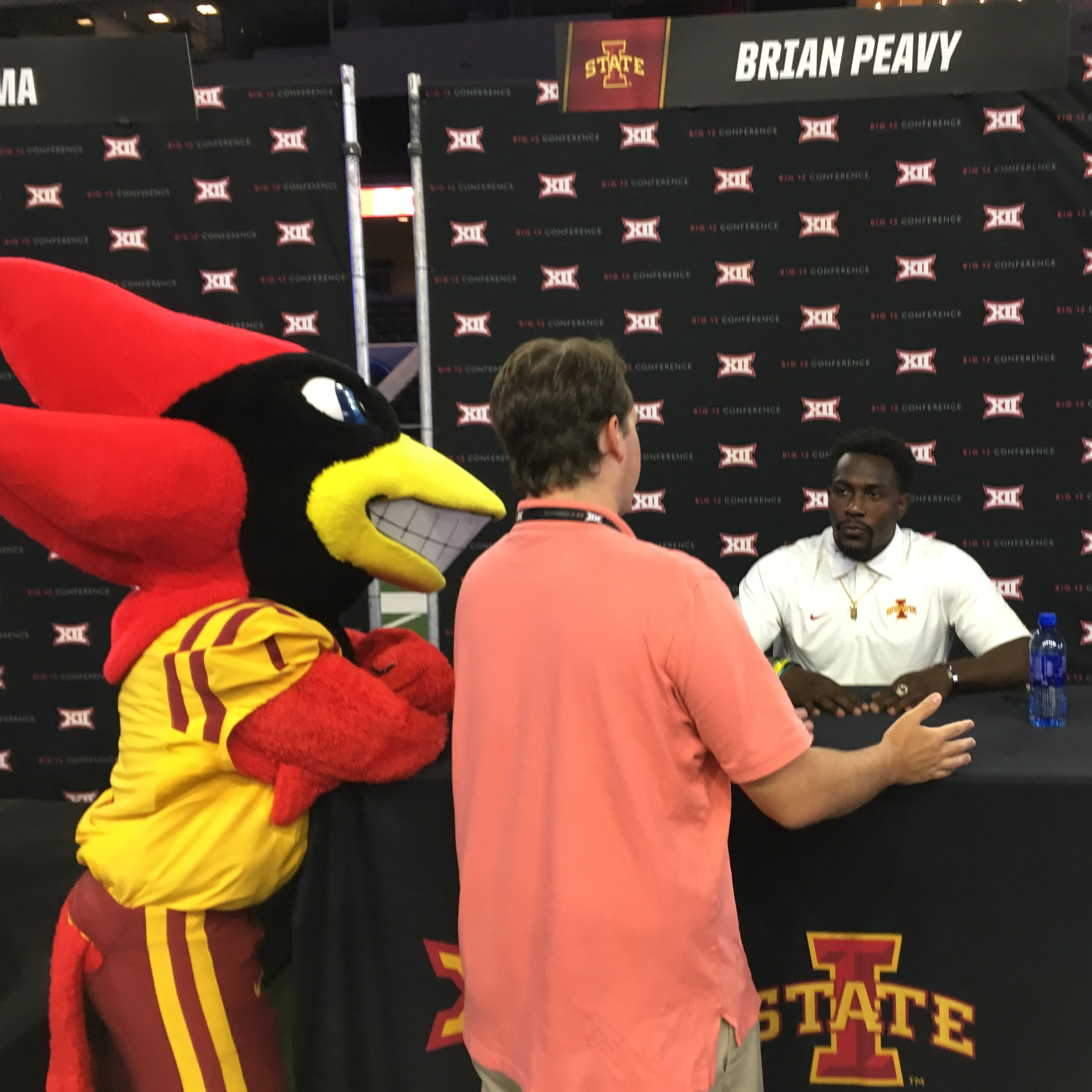 Brian Peavy, defensive back for the Iowa State Cyclones football team with a member of the media and Cy the Cardinal, at the 2018 Big 12 Conference Media Days in Frisco, Texas.